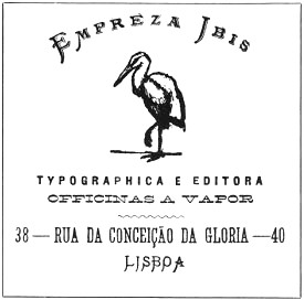 Fernando Pessoa Publishing House «Empreza Ibis», 1908-1910.